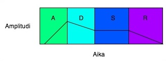 synthesizer adsr graph in finnish